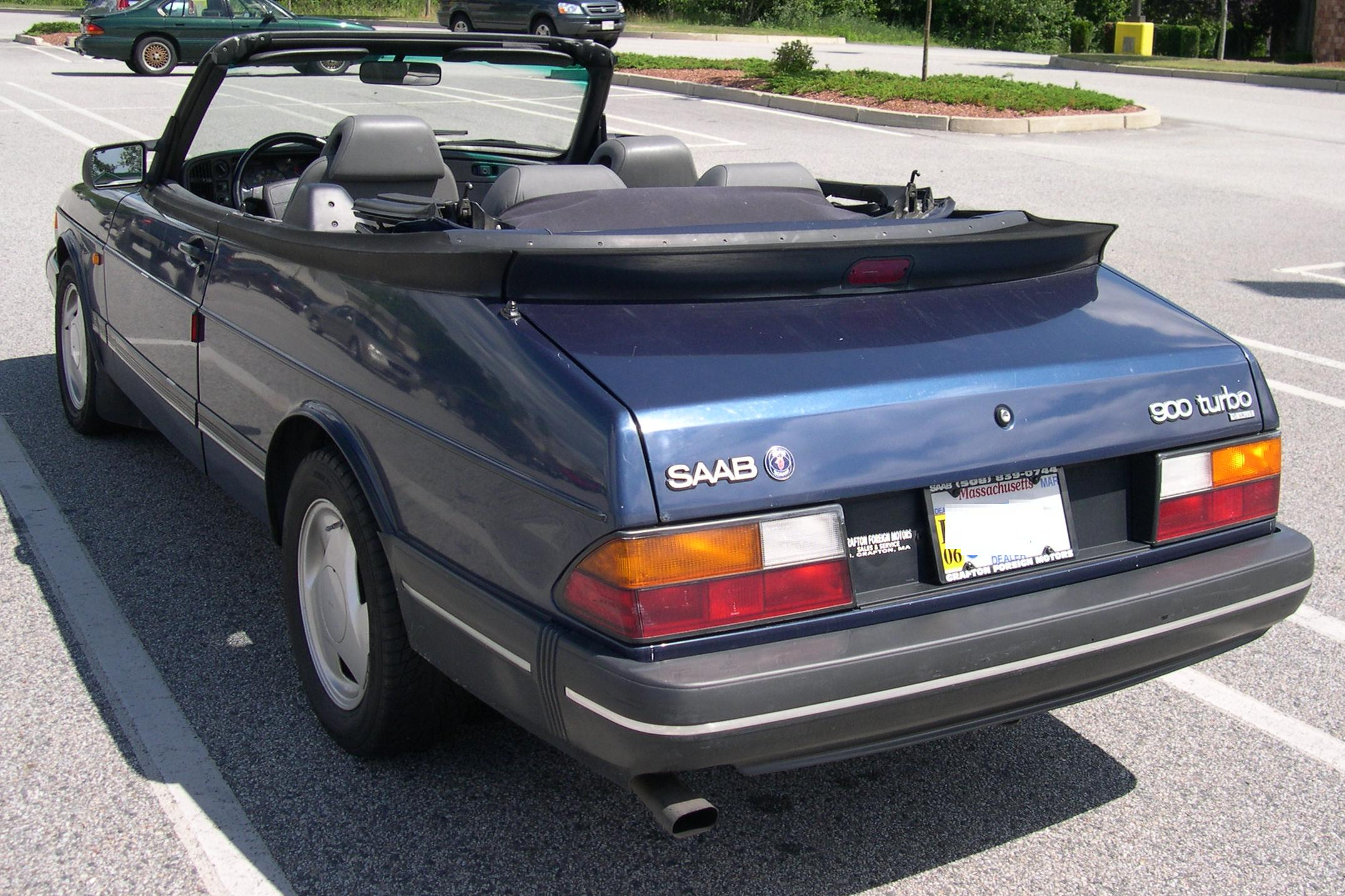 1993 Saab 900T convertible Photo by User:Sfoskett